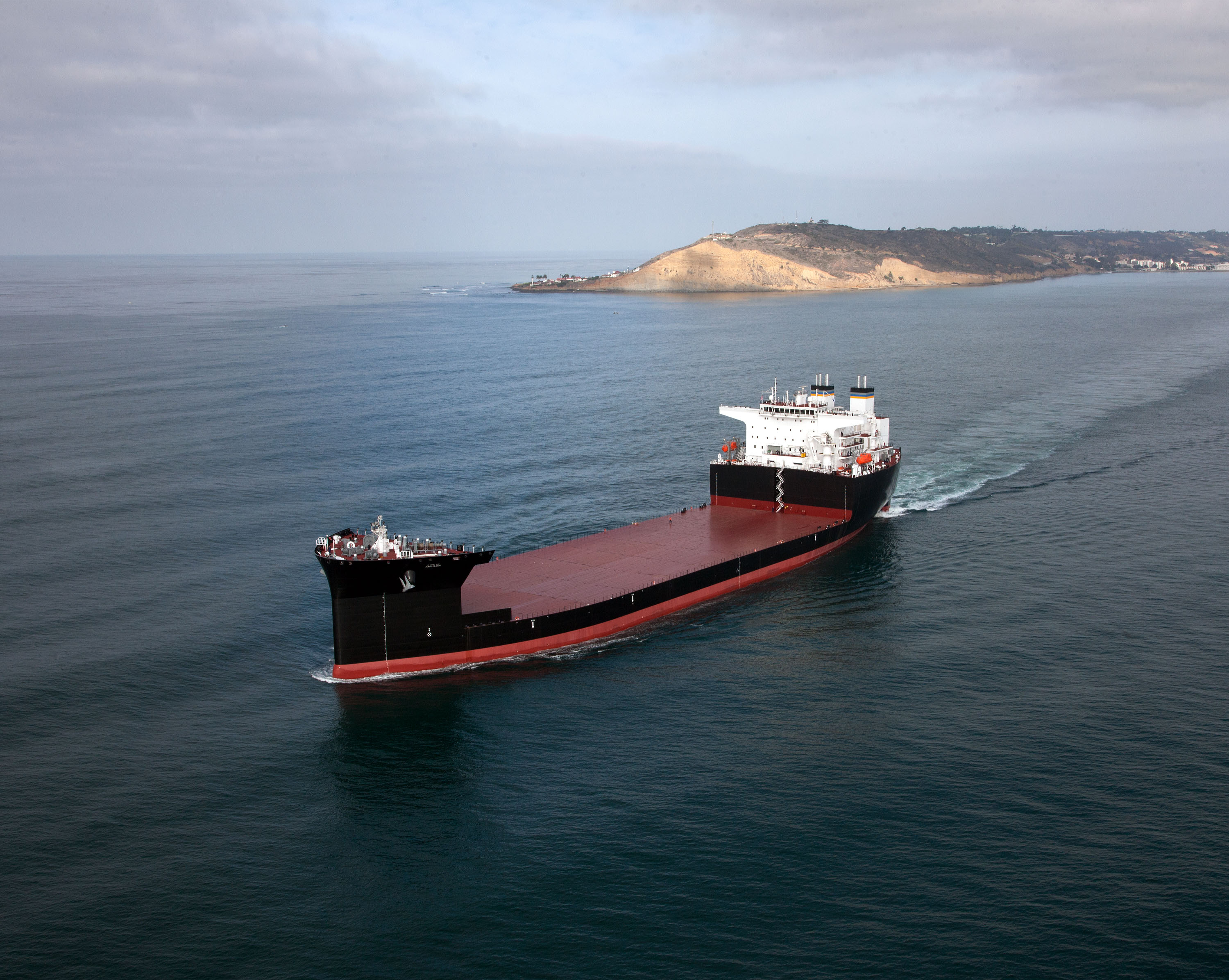 The U.S. Military Sealift Command mobile landing ship USNS John Glenn (T-MLP-2) underway off Point Loma, California (USA). The ship successfully completed builder's sea trials on 13 January 2014 and is expected to be delivered to the U.S. Navy in March following acceptance trials.